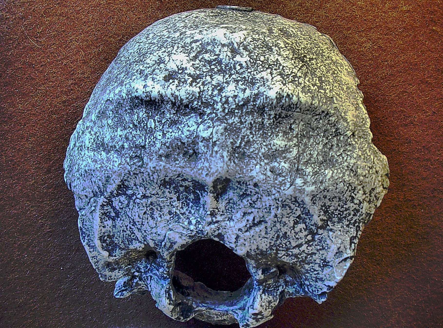 Occipital / foramen magnum of Swanscombe-fossil (Homo heidelbergensis), ca. 400,000 years old, replica, Museum Tautavel (Perpignan-region), France